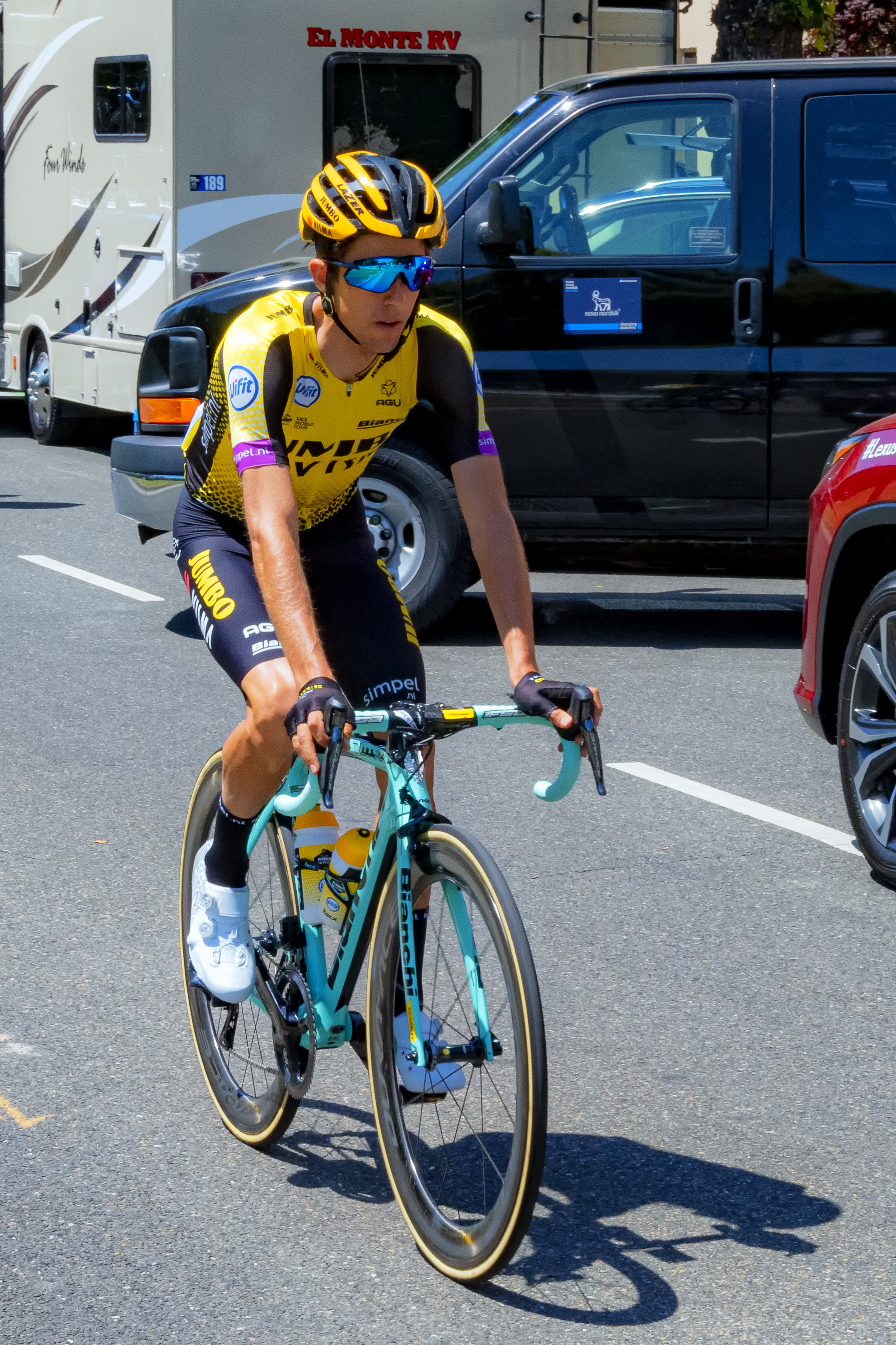 Amgen Tour of California 2019 Stage 1 Sacramento- Sacramento Road Race Sunday May 12 UCI World Tour